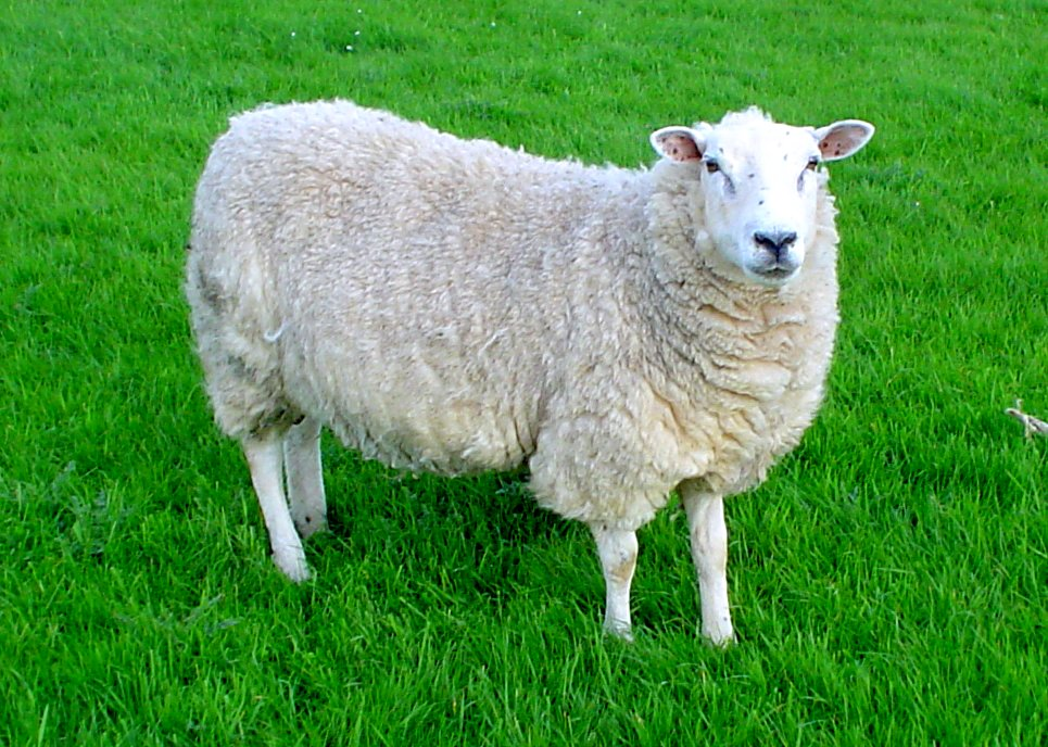 Lleyn sheep taken with a Sony Digital Camera at 3.2 megapixels in Devon, UK.